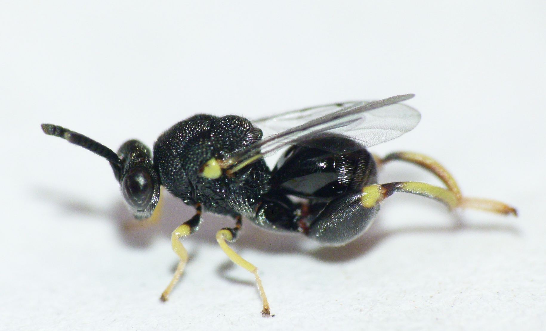 Unidentified Brachymeria, Chalcididae from Euploea core pupa. Bangalore, India